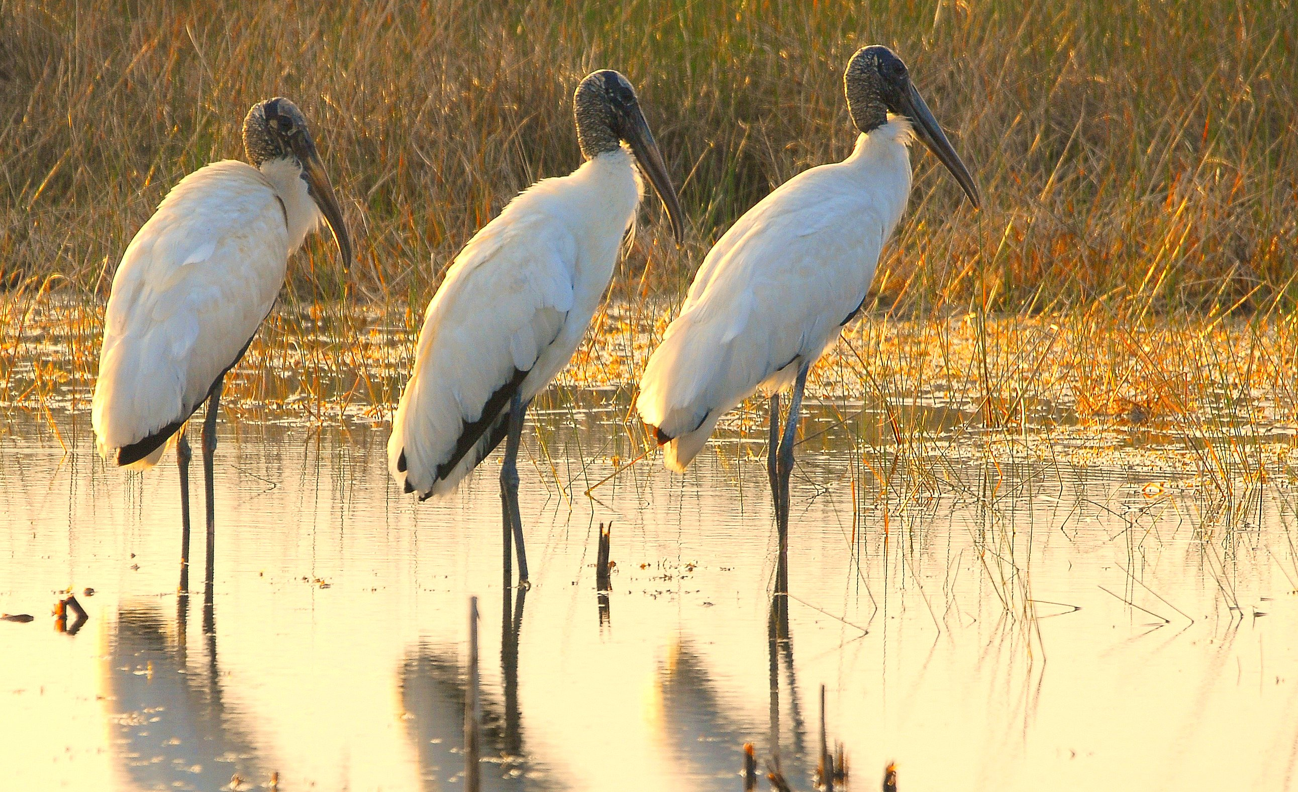 Taken at Lake Woodruff Nat'l Wildlife Refuge near DeLand, Florida. © Andrea Westmoreland